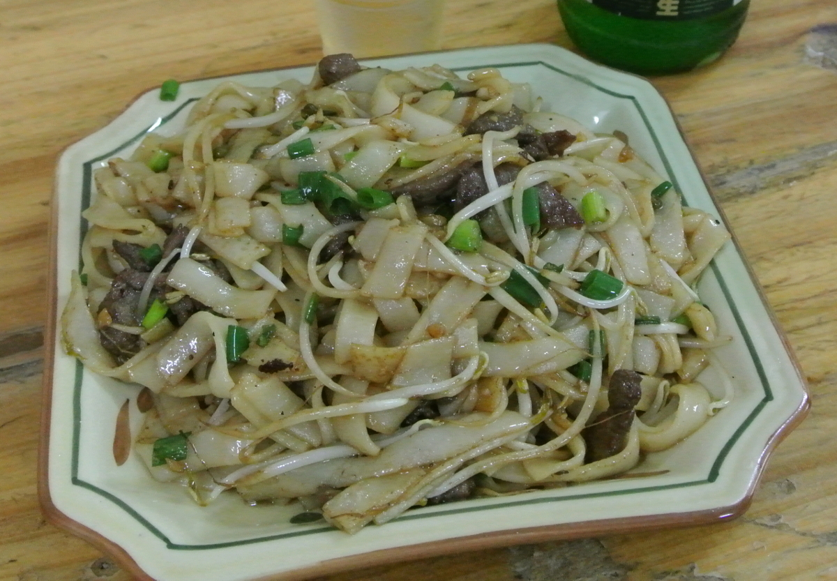 Chinese fried Ho Fen noodle with beef in Guanzhou city.